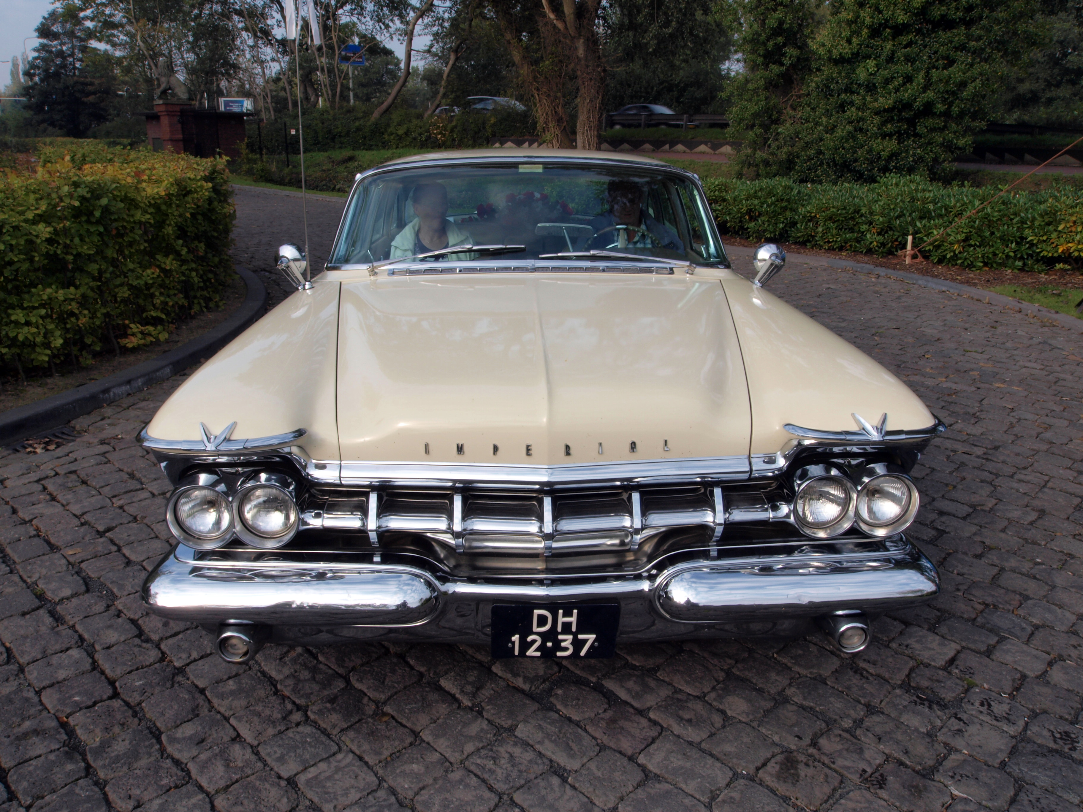 Photographed at the premmesis of the Louwman museum, The Hague, The Netherlands. OLYMPUS DIGITAL CAMERA